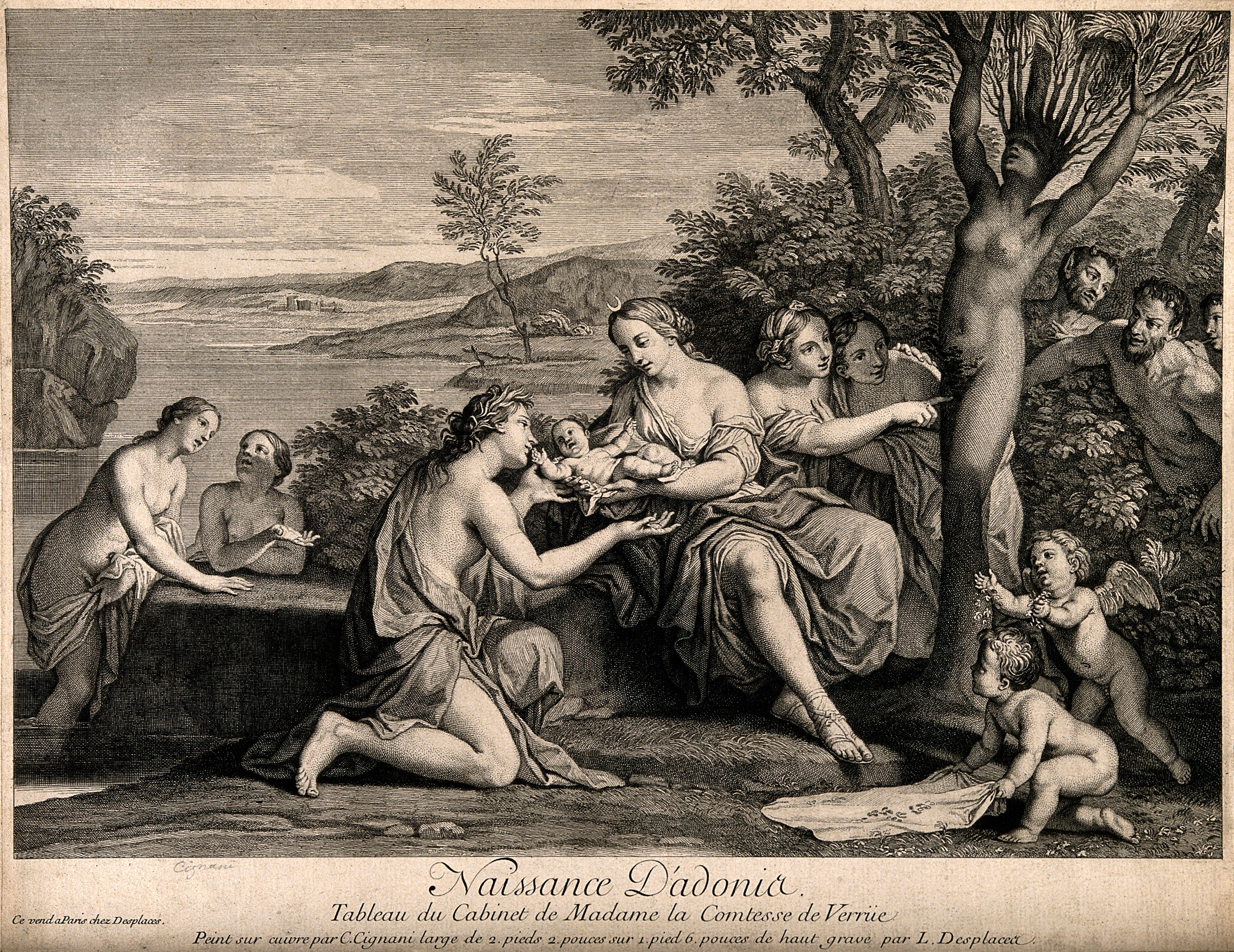 Myrrha (half woman half tree) giving birth to Adonis assisted by Lucina and other nymphs who are also surrounded by cherubs and satyrs. Engraving by L. Desplaces after C. Cignani. Iconographic Collections Keywords: Lucina; Louis Desplaces; Carlo Cignani; Myrrha